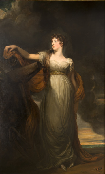 Lady Louisa Mary Anne Julia Harriet Lowry-Corry, Countess of Sandwich (3 April 1781 – 19 April 1862) was an Irish noblewoman and society figure - painting by Lawrence is in La Salle University Art Museum.